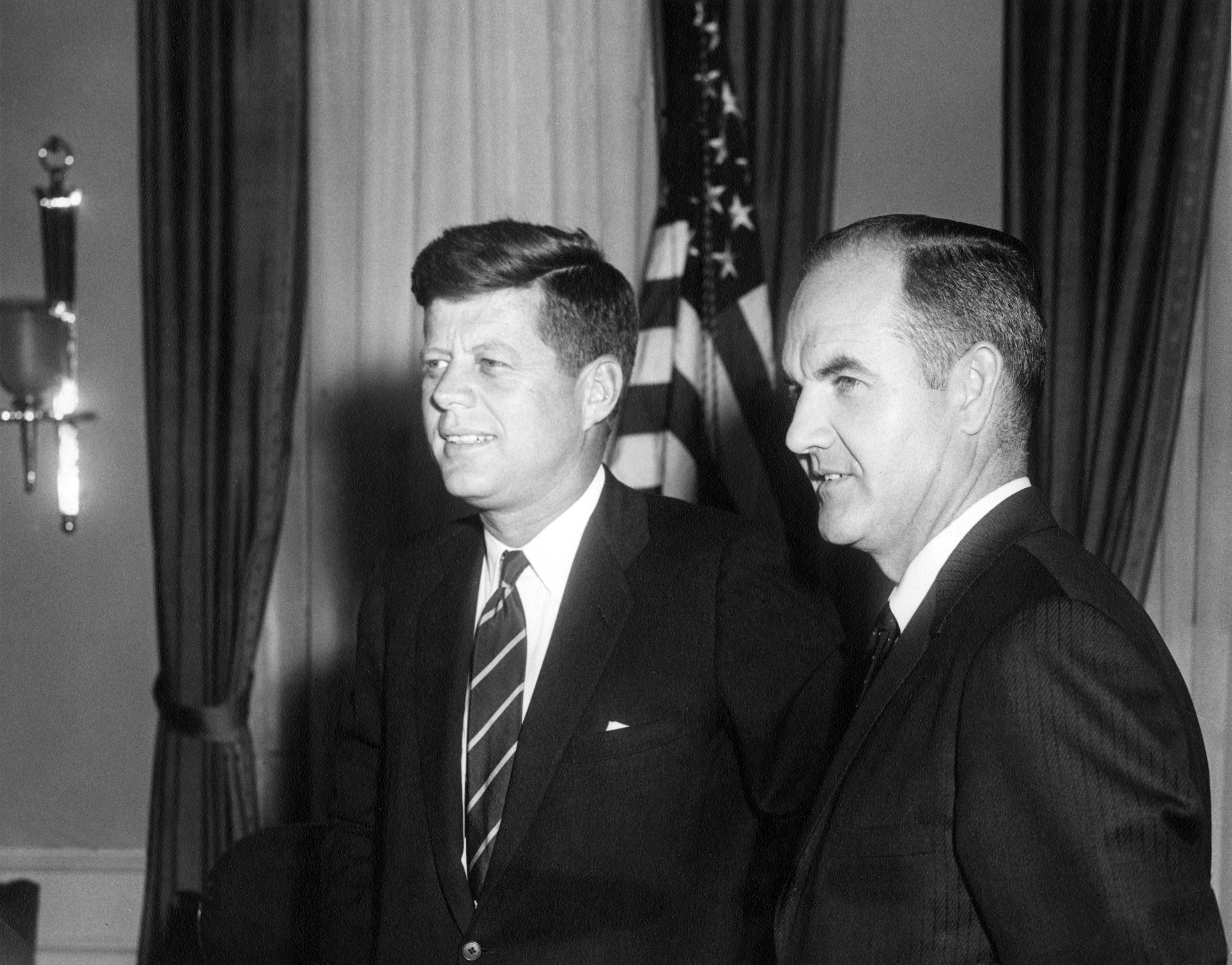 U.S. President John F. Kennedy (left) with George McGovern, who Kennedy has appointed the first Director of the Food for Peace program.